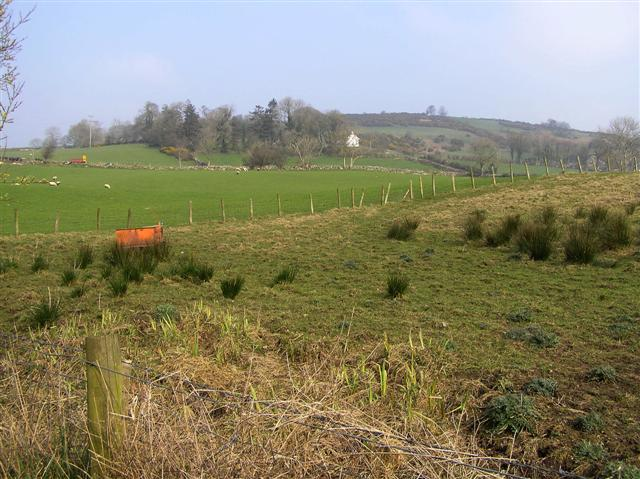 Dartans, Castlederg. A varied sort of landscape.